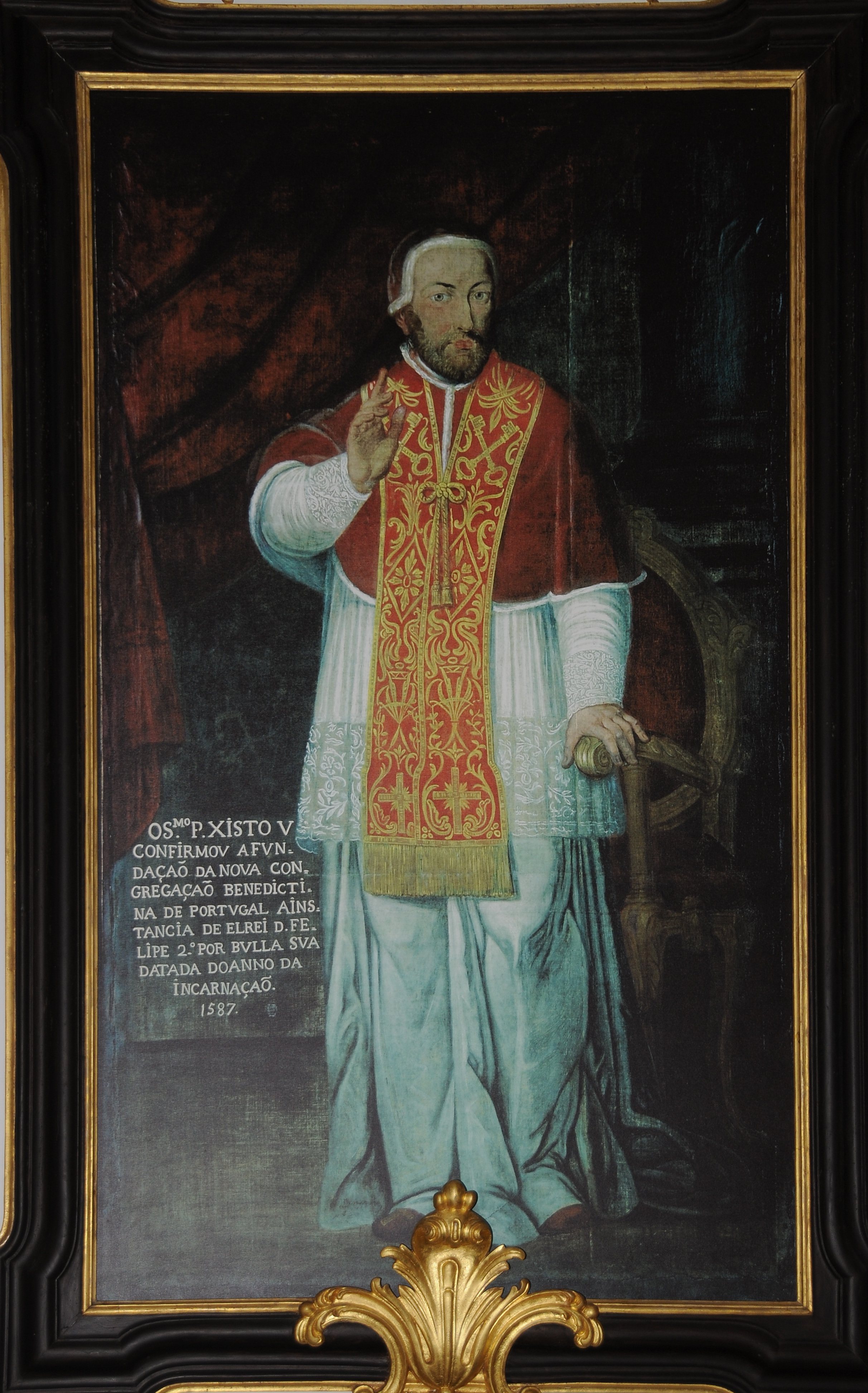 Painting of Pope Sixtus V in Tibaes Monastery, Braga, Portugal.